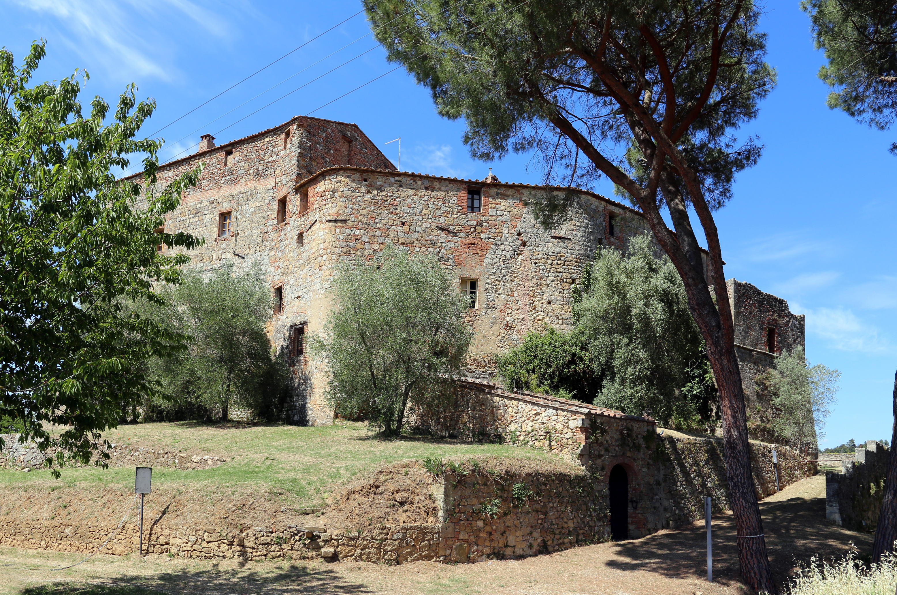 Castiglionalto (Monteriggioni)